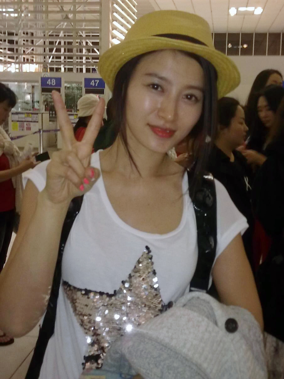 20120331 Hwangbo in Philippines Manila airport